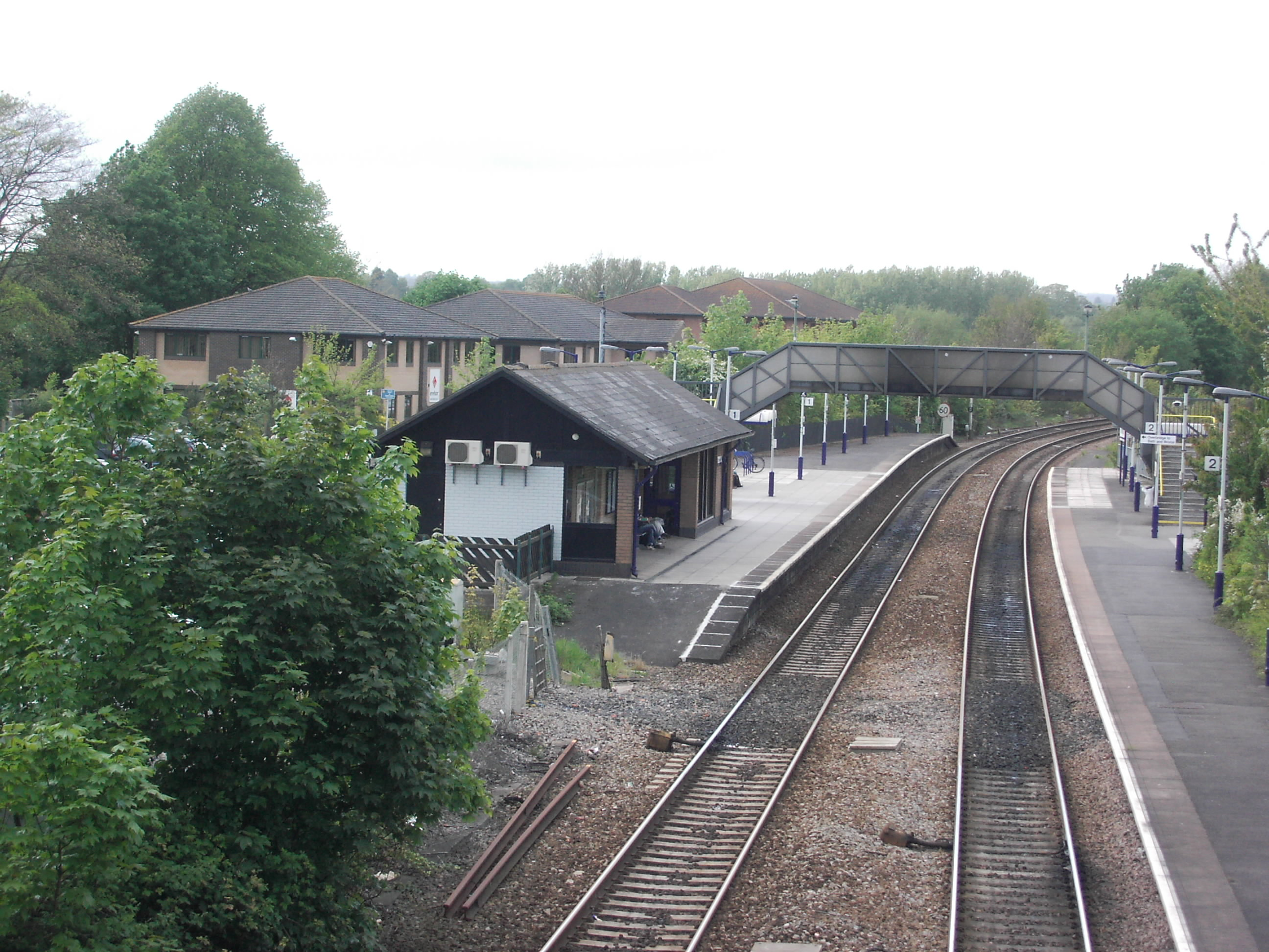 Trowbridge station citadel.